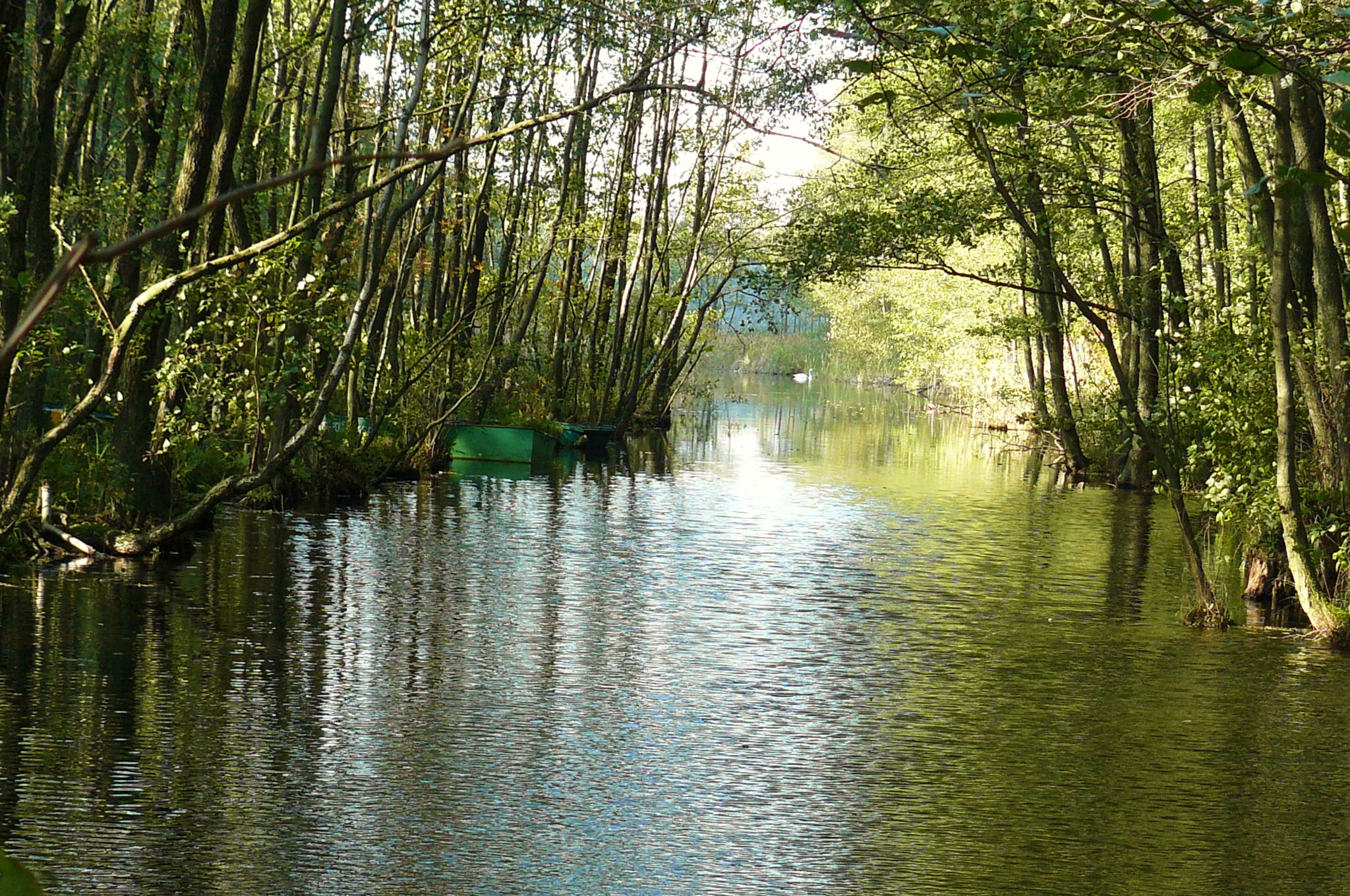 Bogdanka River, Poznan (Rusalka Lake).